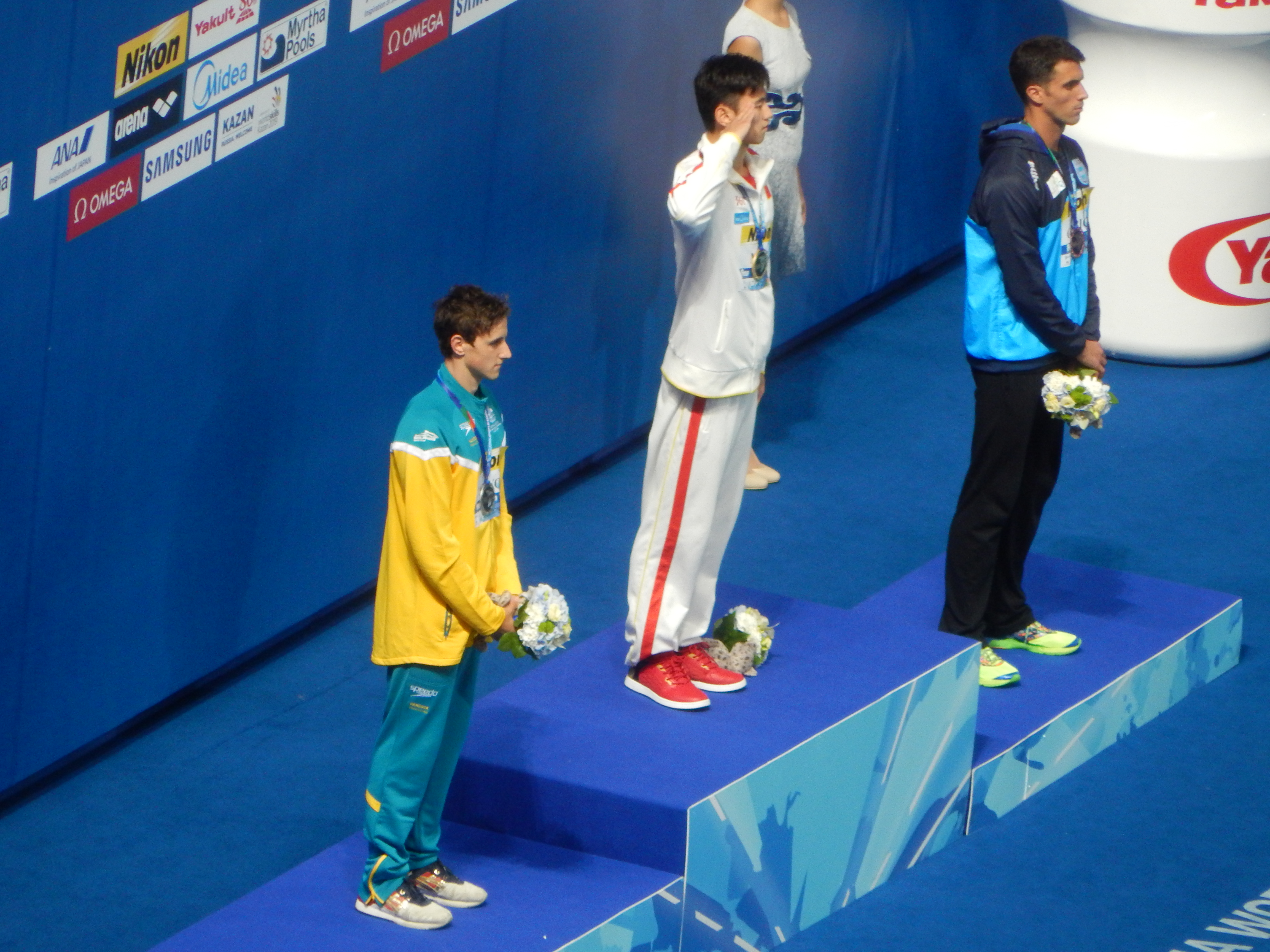 Medallists at the 2015 World Aquatics Championships at 100m freestyle men